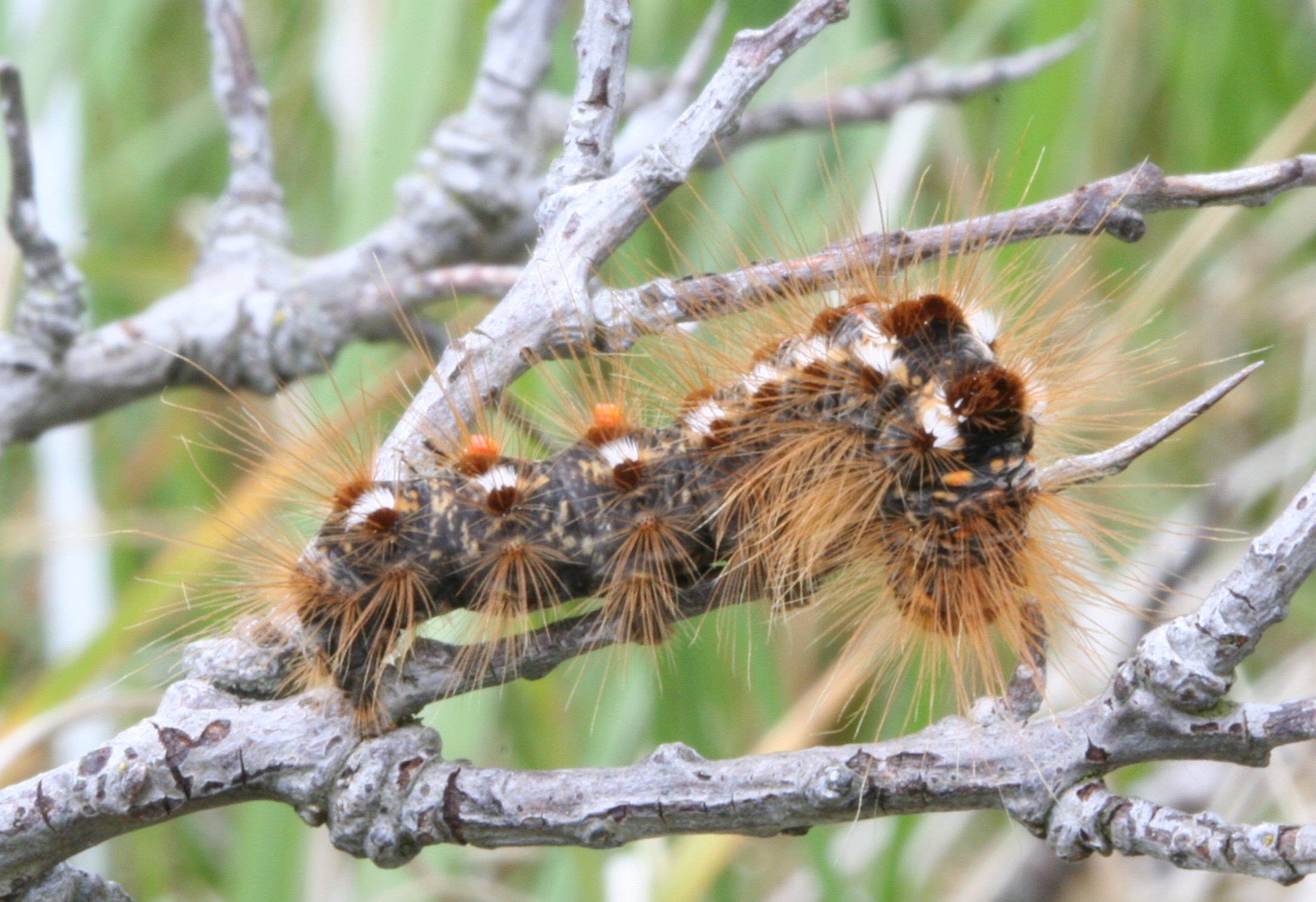 Euproctis_chrysorrhoea 3 June 2006 IJmuiden, the Netherlands